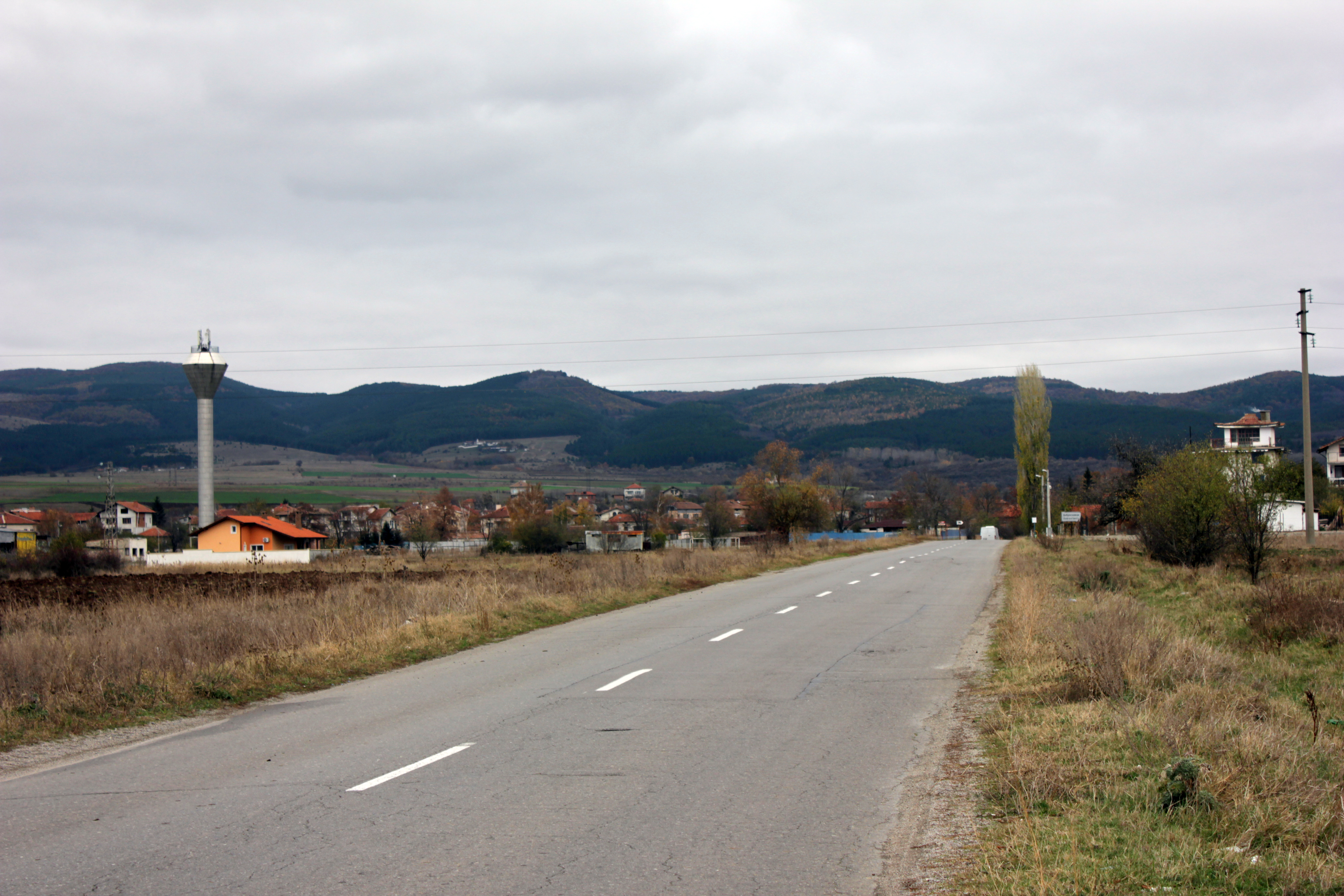 Water tower at entrance road to Dobroslavtsi